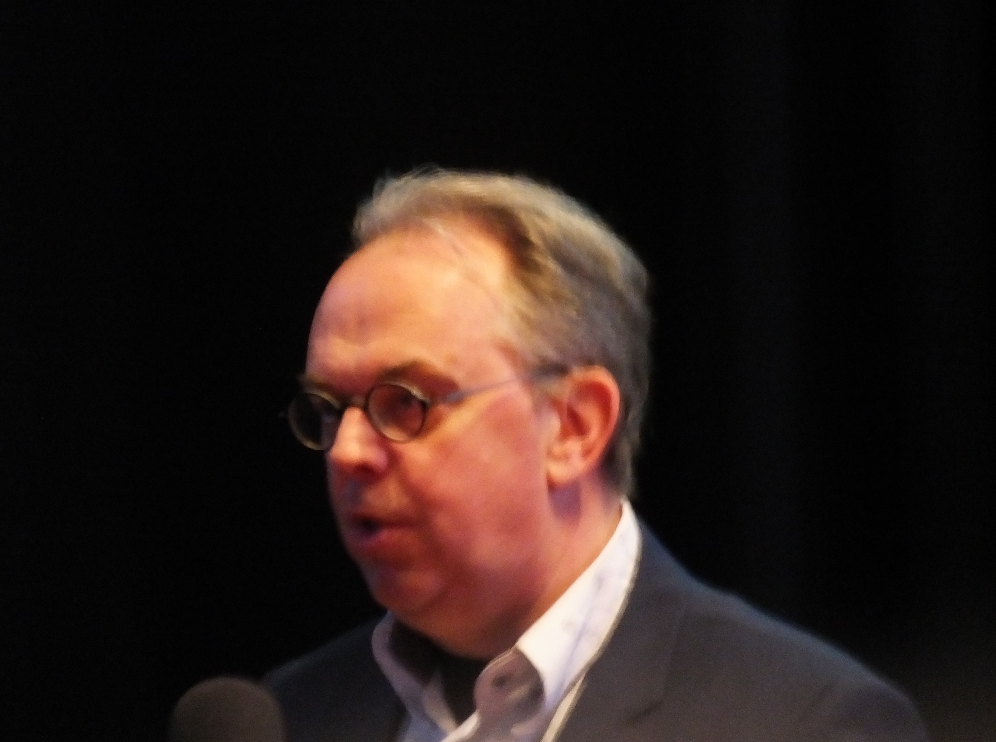 Peter Hagoort, SMART Cognitive Science conference in Amsterdam, 2015